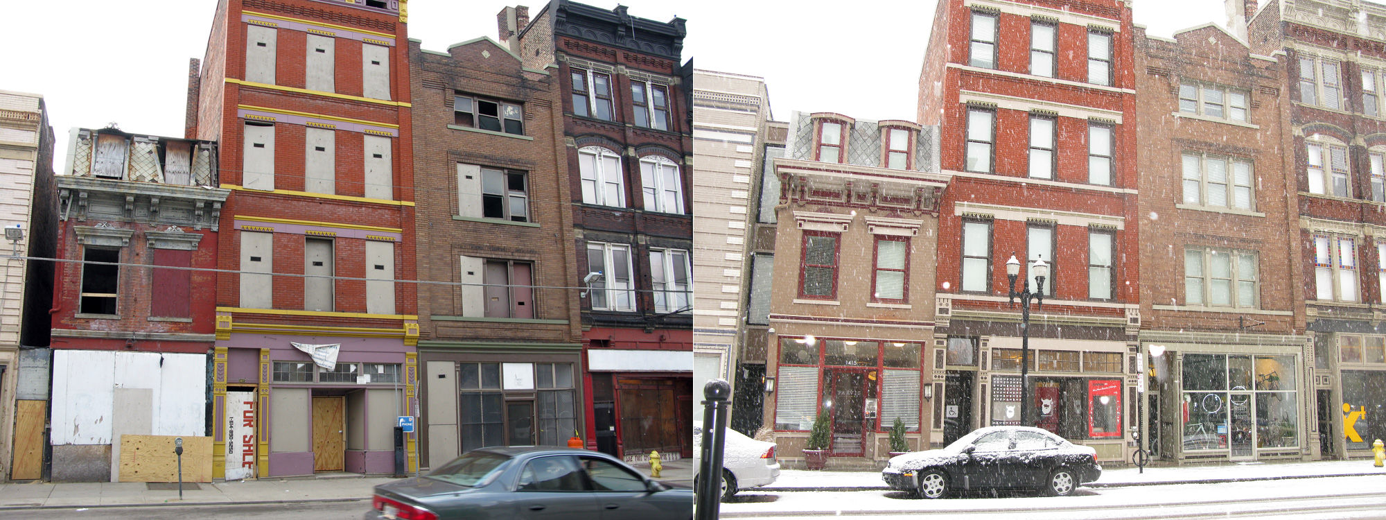 A before and after of the redevelopment that was done in OTR.